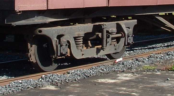 Commonwealth bogie